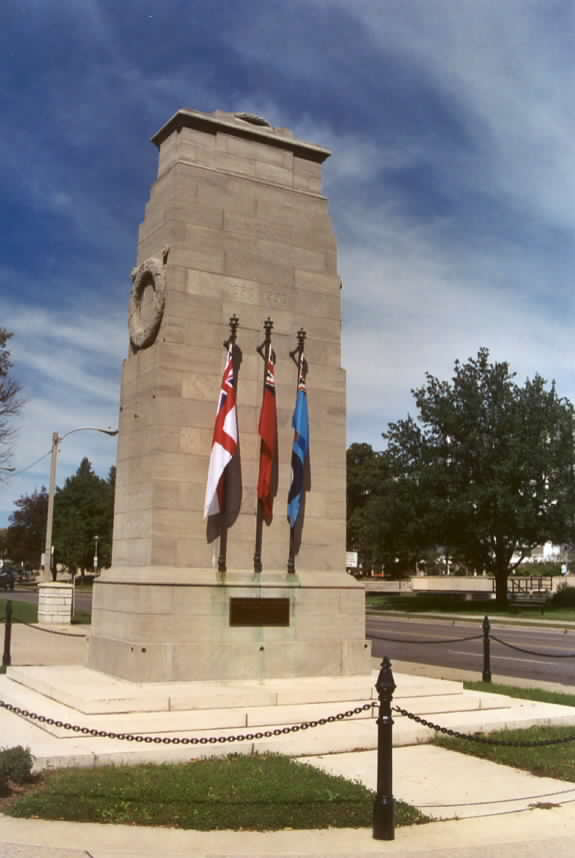 photo by Einar Einarsson Kvaran Victoria Park, in Ontario, Canada